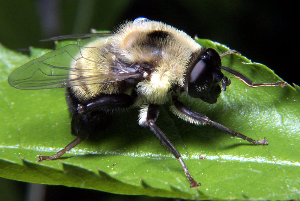 jpeg image: Syrphid Fly - Mallota sp. Diptera Family Syrphidae This female Syrphid fly is undoubtedly the largest fly in this family I've ever seen - nearly 20mm from antennae to wingtips. I'm not sure if this fly is mimicking a bumblebee (probably) or mimicking a robber fly mimicking a bumblebee.